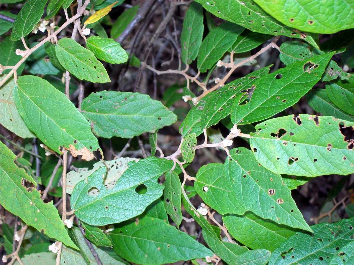 Seringia arborescens labelled at the botanic gardens at Batemans Bay